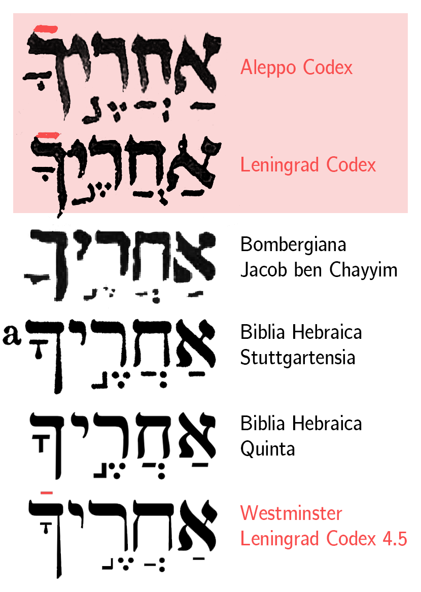 Comparison of six different typefaces of the word אחריך (Cant 1:4a) to illustrate the omission of the 'Rafe' diacritic in most print editions of the Hebrew Bible.